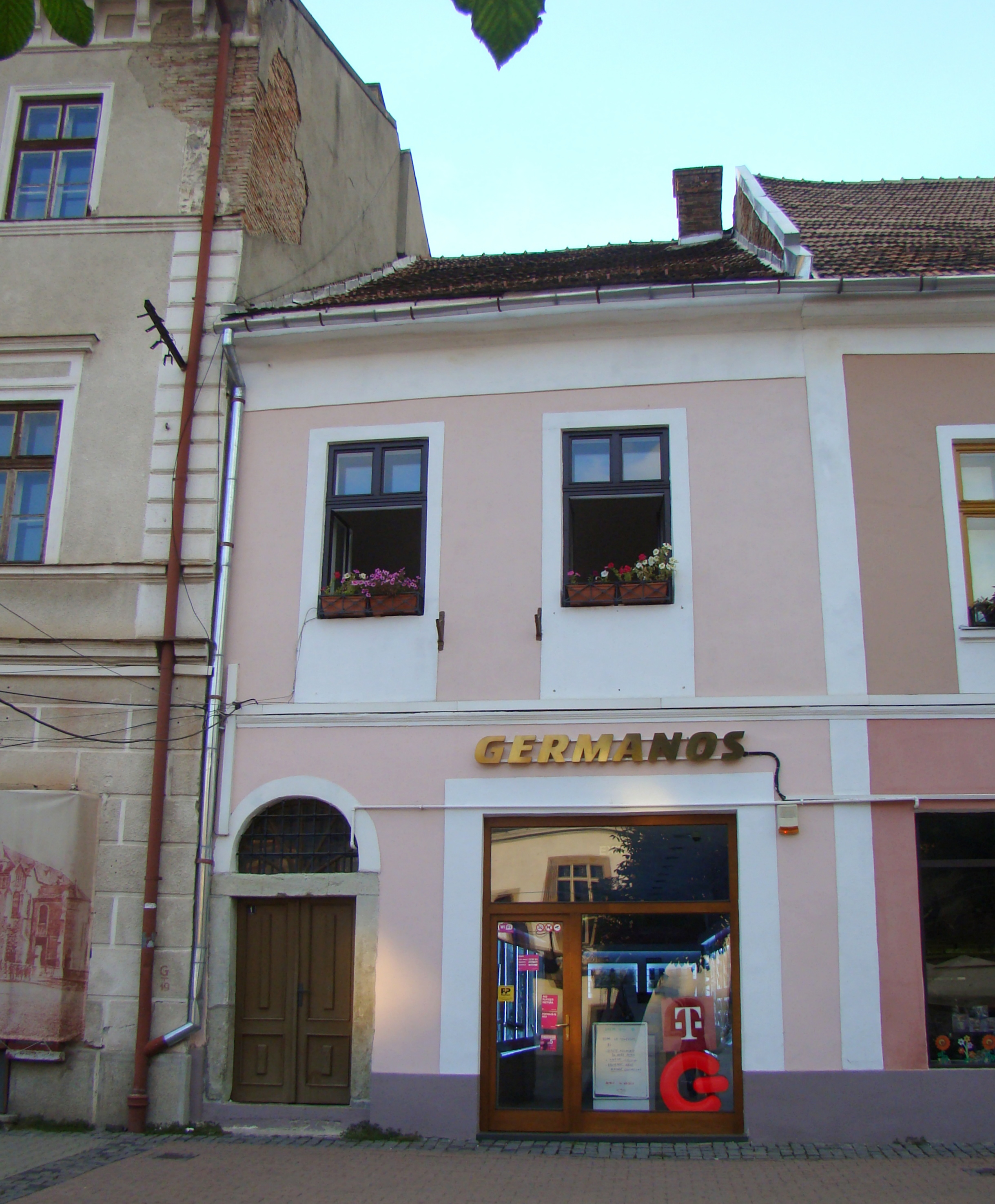 House, historic monument, in Bistrița, Liviu Rebreanu street 1